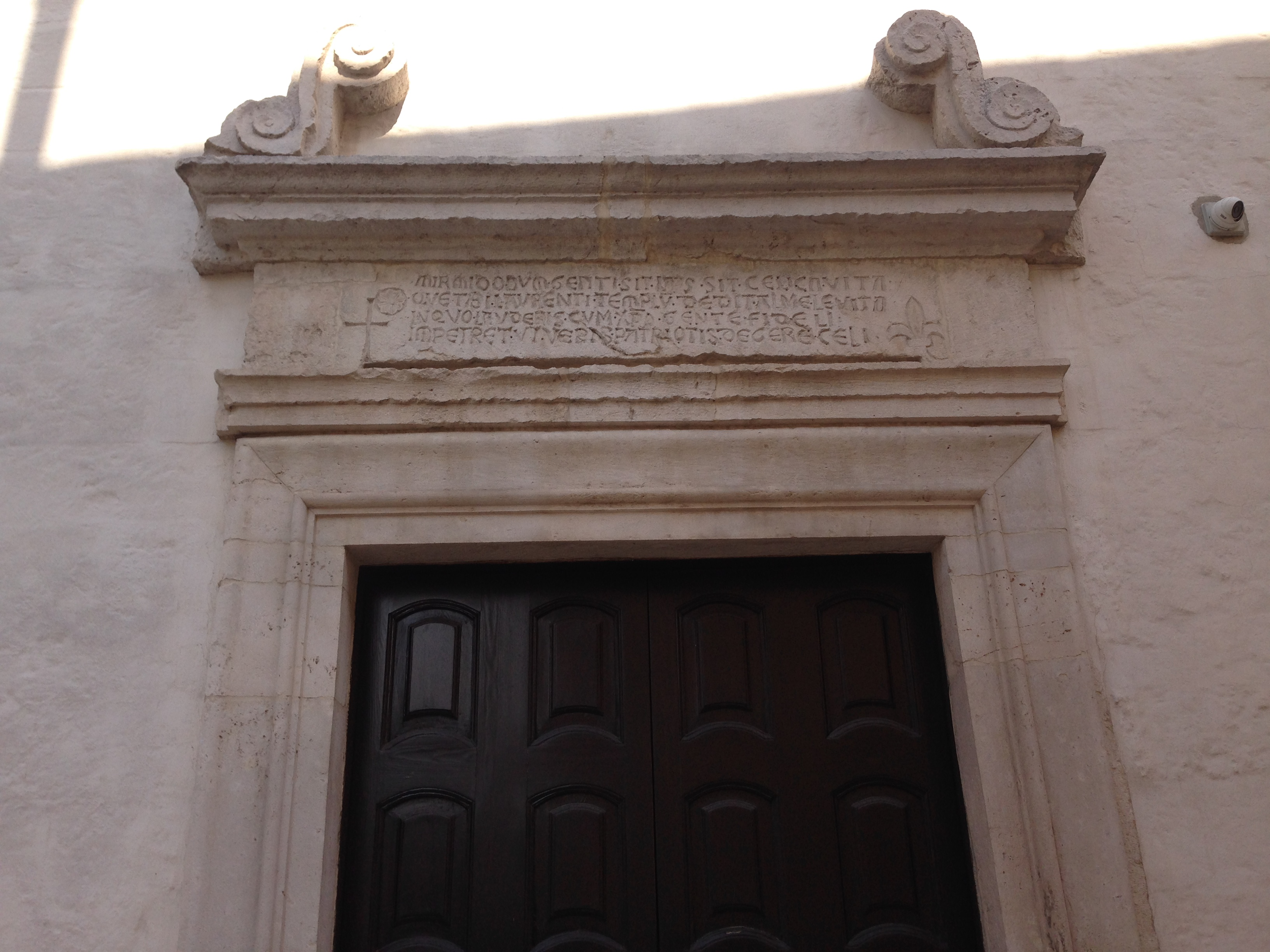 Inscription located on top of the entrance to Chiesa di S. Lorenzo in Altamura (Italy) MIRMIDONUM GENTI SIT LAUS SIT COELICA VITA QUE TIBI LAURENTI TEMPLUM ALME LEVITA IN QUO LAUDERIS CUM XPO GENTE FIDELI IMPETRET UT VERIS PATRIOTIS DEGERE COELI Levitae has been substituted by Levita for the rhyme. Here's the translation (in Italian): Alla gente dei Mirmidoni sia lode, sia celeste vita che pia (generosa) a te Levita Lorenzo eresse il tempio nel quale dalla fedel gente sei lodato con Cristo, affinché (la gente) impetri ai veri patrioti la vita celeste (di vivere in cielo)